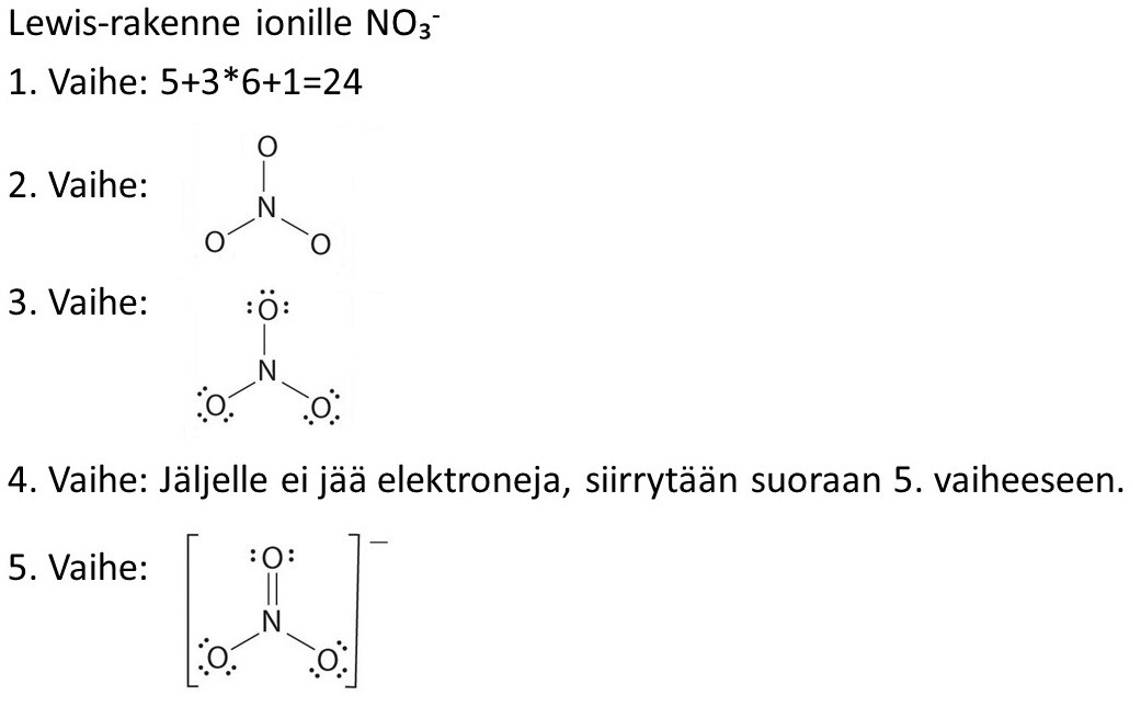 Lewis-structure NO3